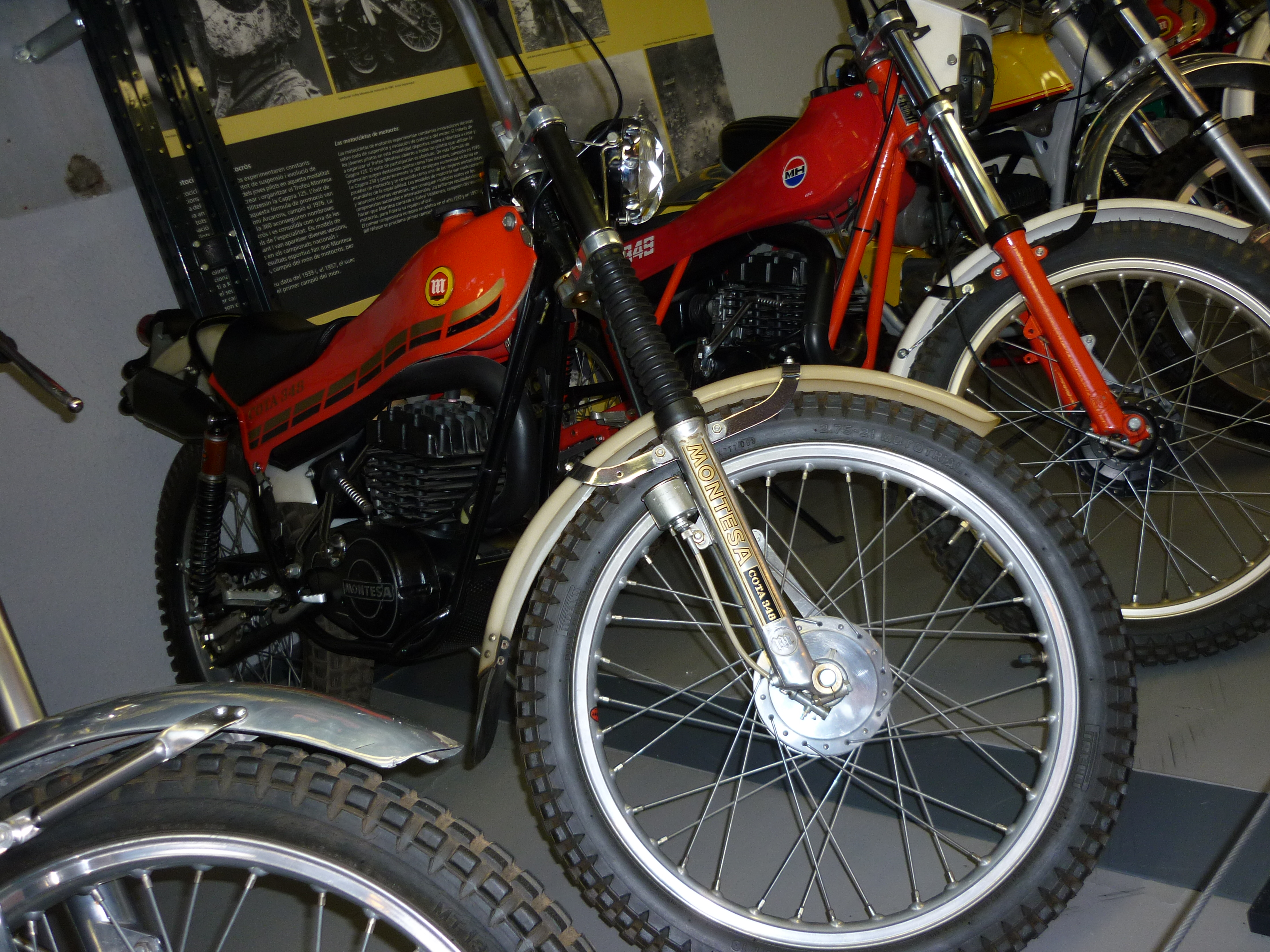 Montesa Cota 348 (around 1978)